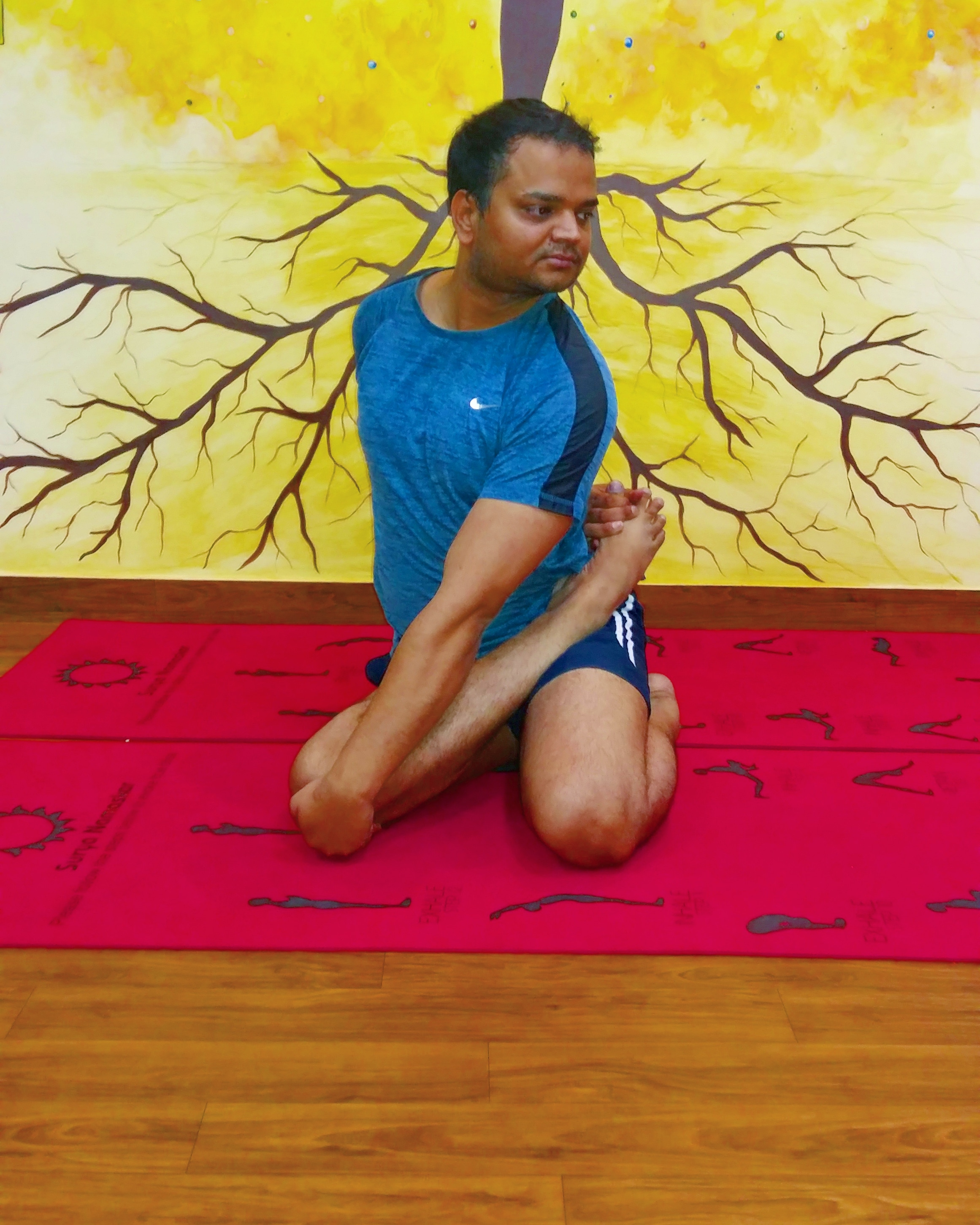 Bharadvajasana..Sadhak Anshit